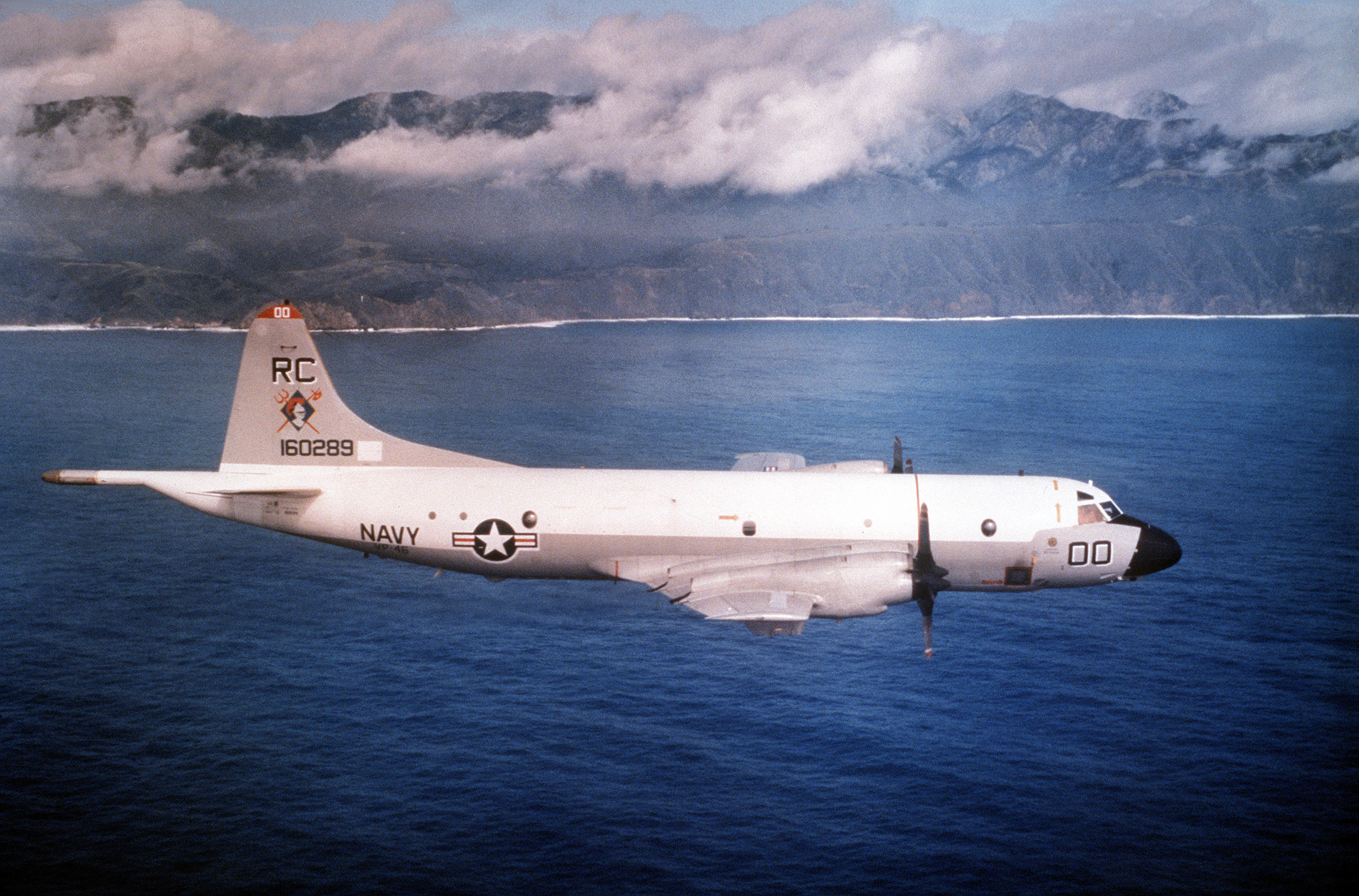 A U.S. Navy Lockheed P-3C-175-LO Orion (BuNo 160289) Patrol Squadron 46 (VP-46) "Grey Knights" in flight.